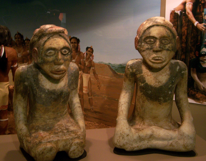 Stone effigies found at the Etowah Indian Mounds Site.